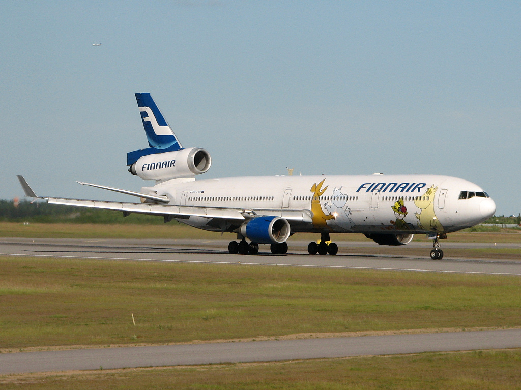 Finnair McDonnell Douglas MD-11 with Moomin colours